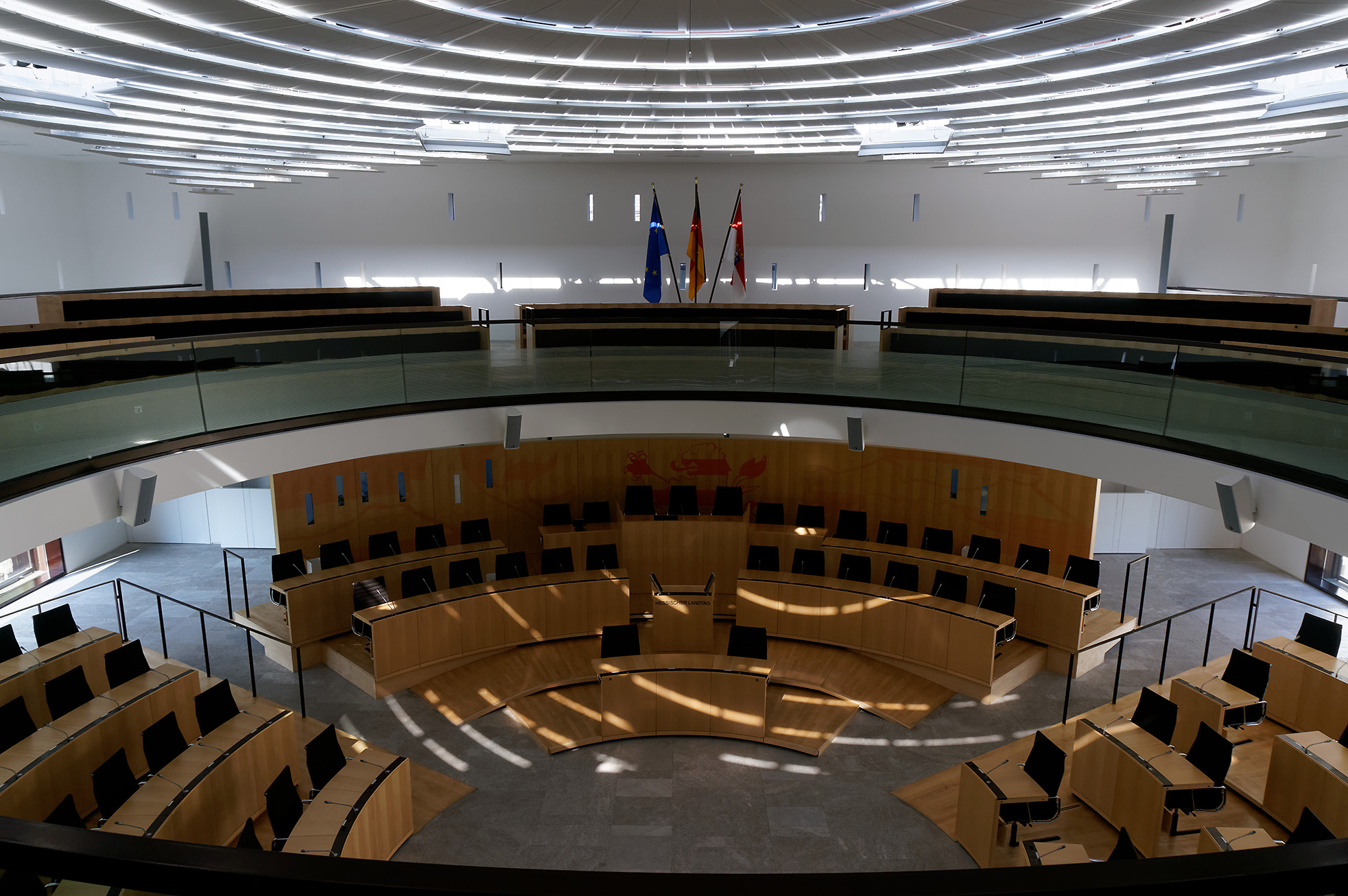 Plenary chambers of the Landtag of Hesse, the Parliament of the State of Hesse in the Federal Republic of Germany. (DSC09930-D4.jpg)